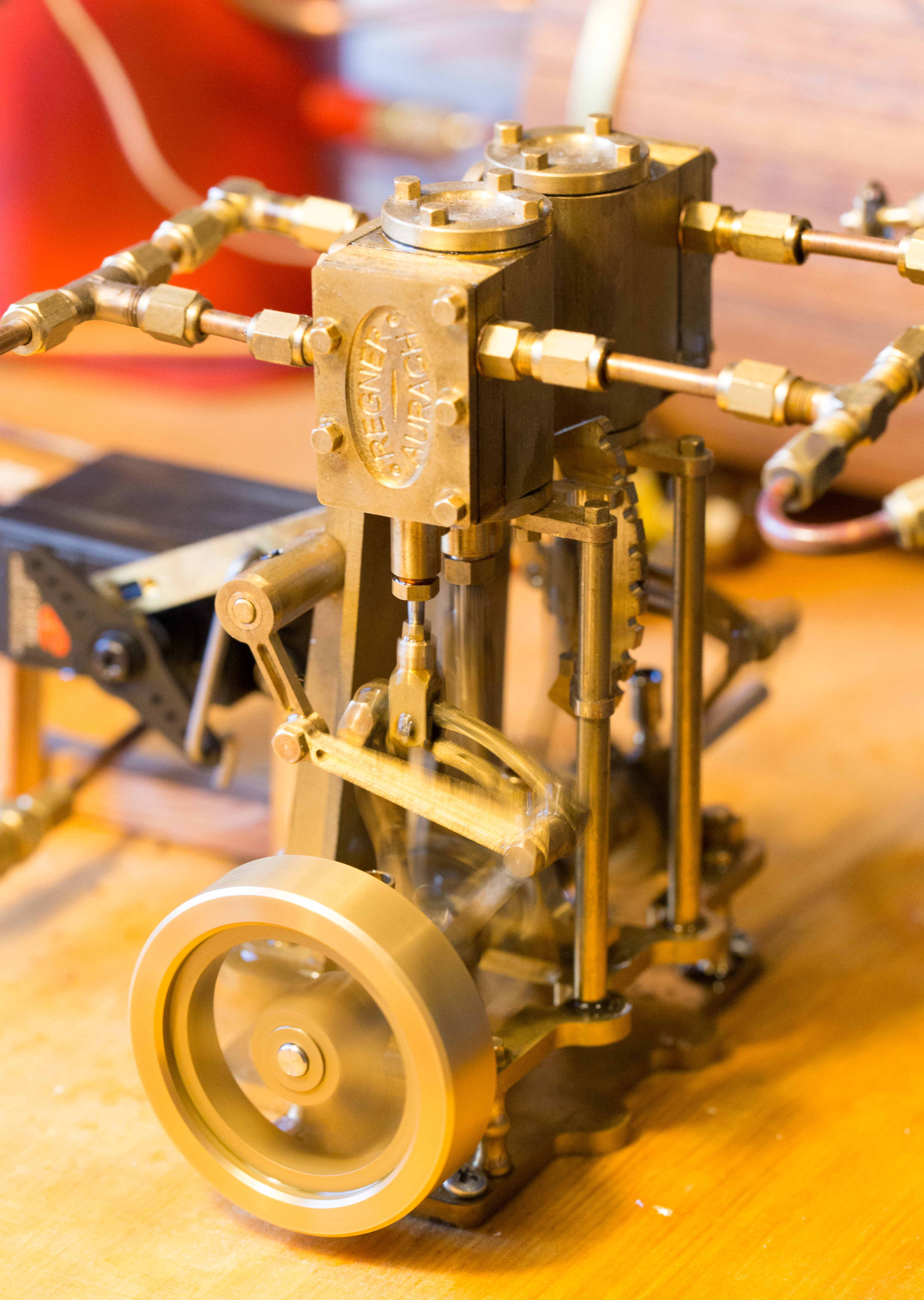 Model steam engines from the Company Regner in Aurach, Germany